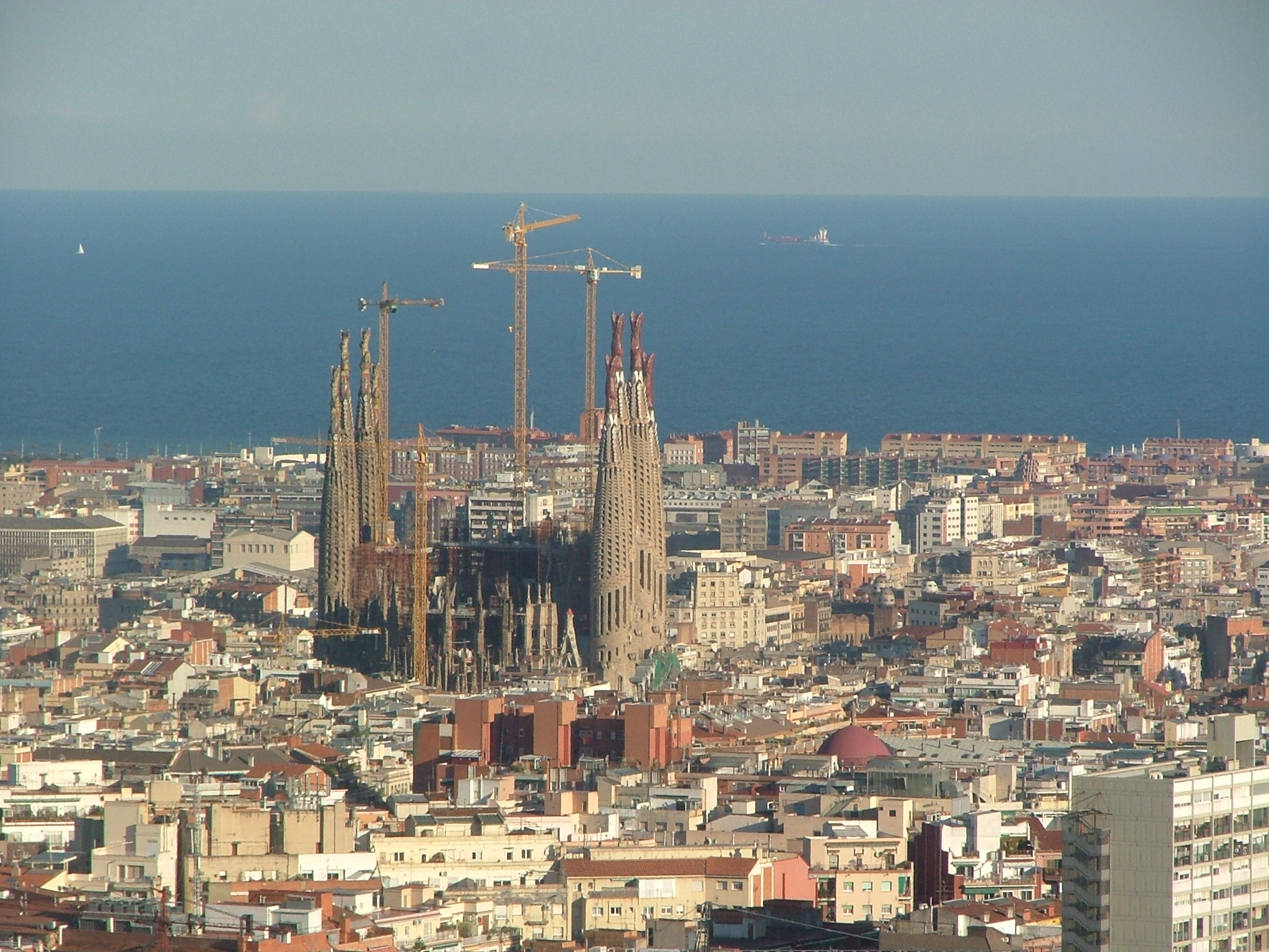 Sagrada Familia Temple seen from Parc Guell, Barcelona, Spain.